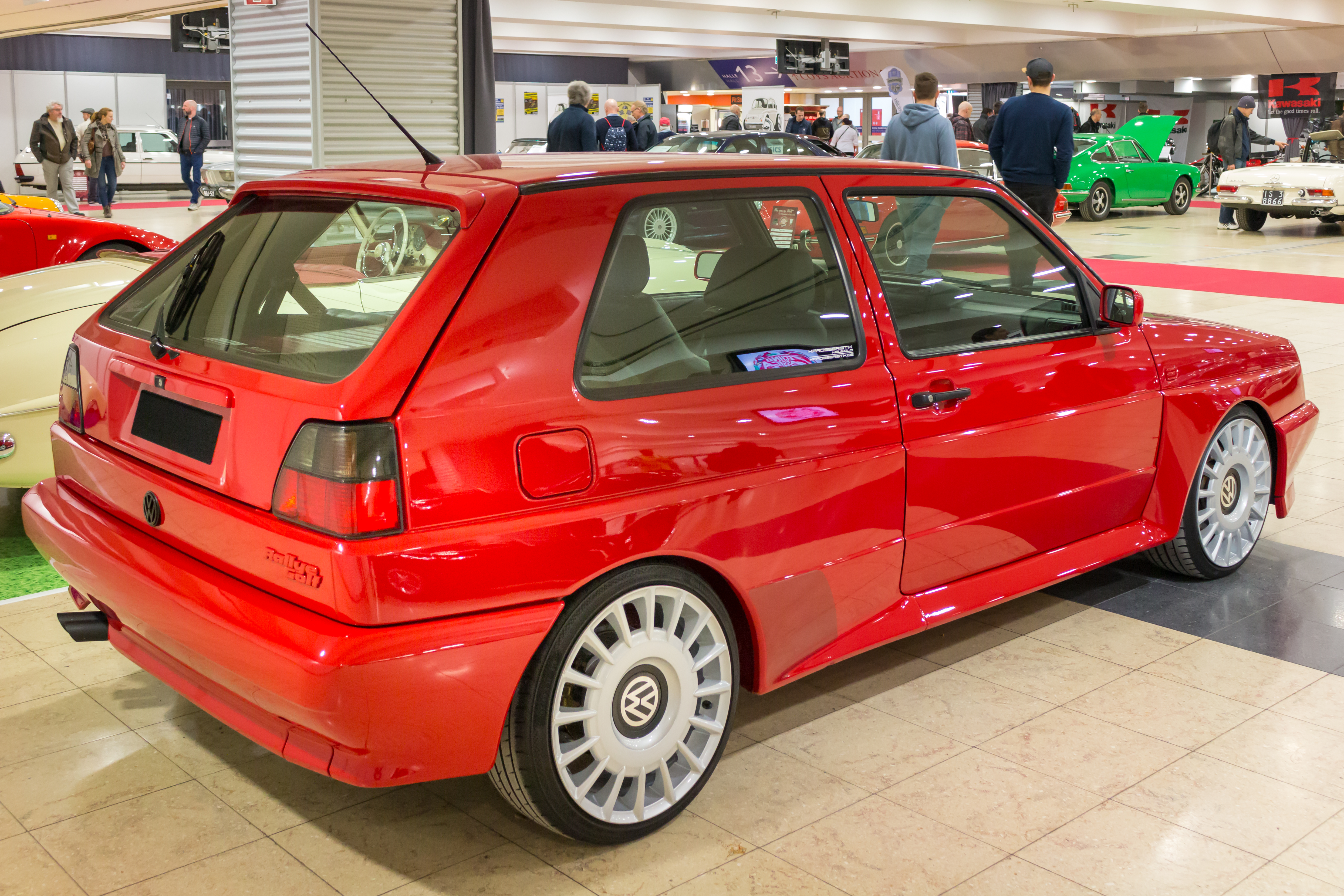 Volkswagen Rallye Golf, Techno Classica 2018, Essen